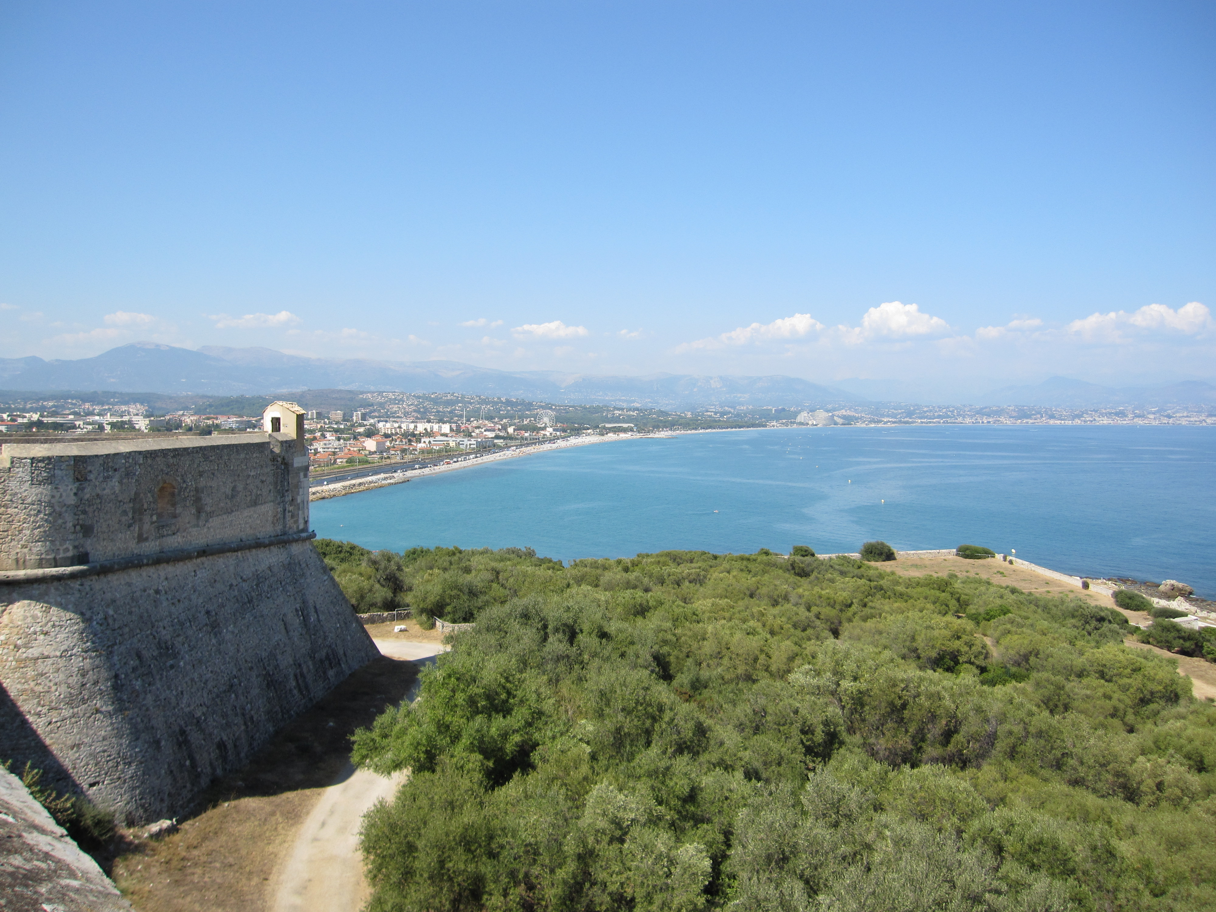 fort carré, antibes , france, view from bastion corsica of bastion nice and Nice